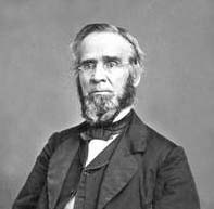 John Henry Hubbard, US Representative from Connecticut